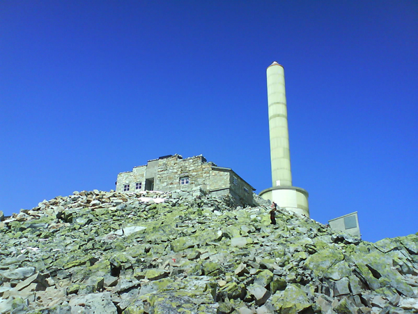 This is what you see at the summit of Gaustatoppen, the cabin, the silo behind it is some kind og military innstalation